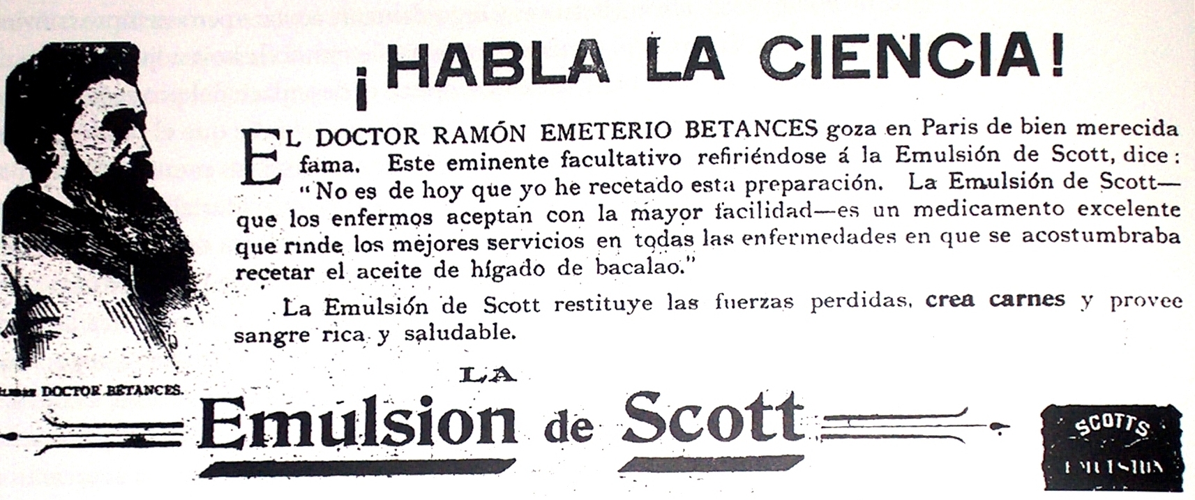 This ad first appeared on the local Puerto Rican newspaper La Democracia (owned by Luis Muñoz Rivera) on April 1890. It shows Ramón Emeterio Betances as a spokesman for the Emulsión de Scott.